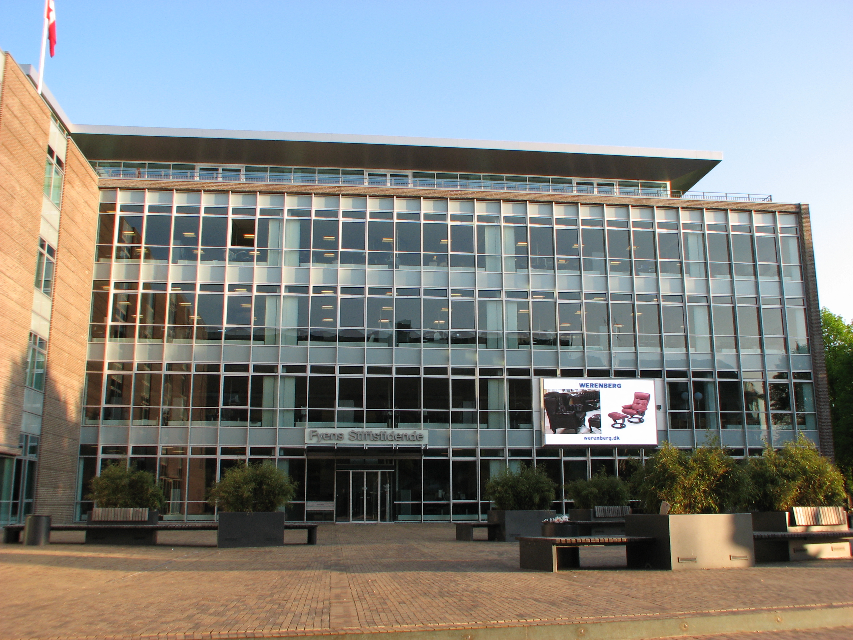 Fyens Stiftstidende is a regional newspaper in Odense, Denmark, this picture shows their publishing house.